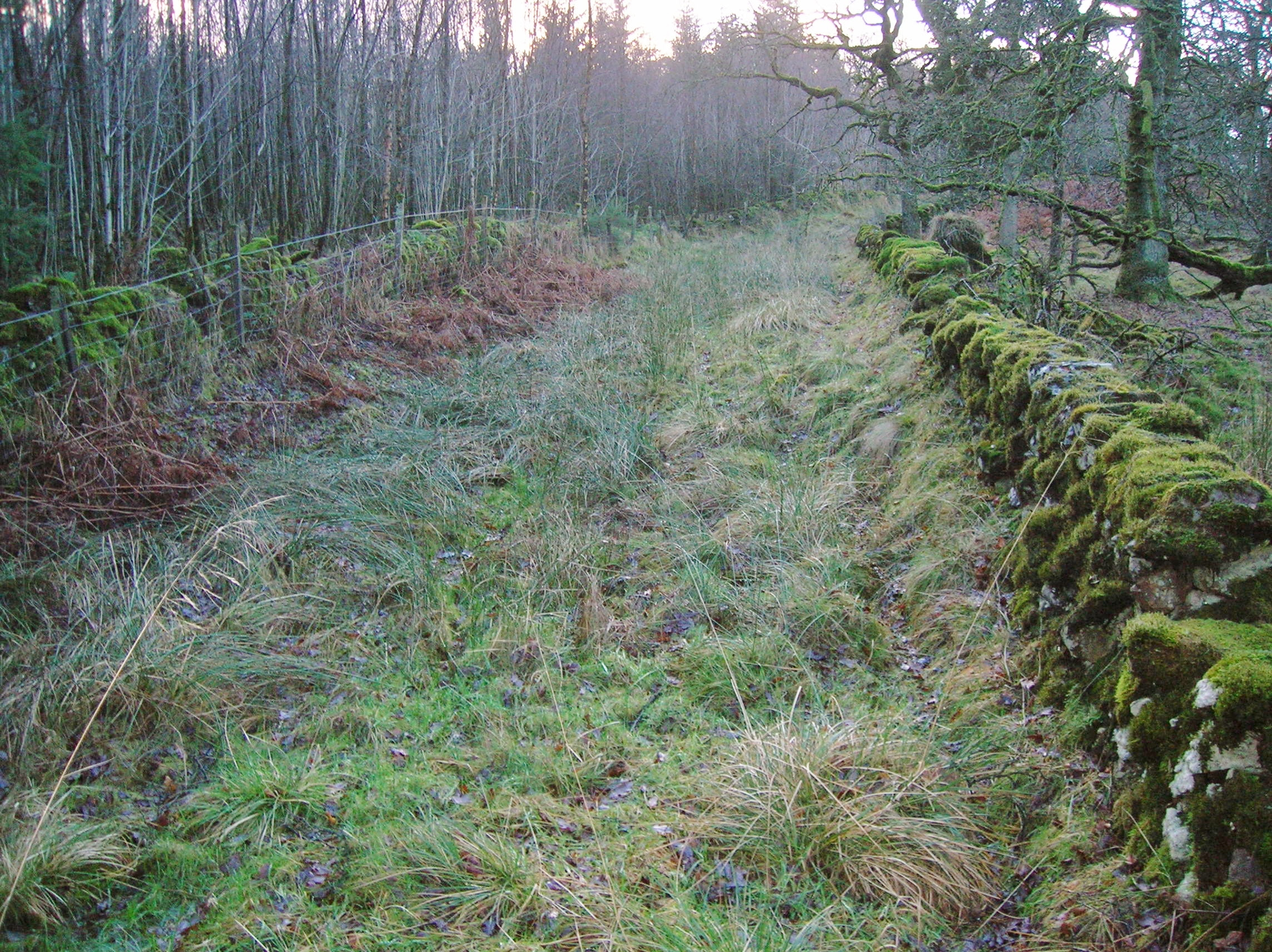 The Brown Muir Hill lane with its drystone wall near the old Nebanoy Farm, Beith, North Ayrshire, Scotland.